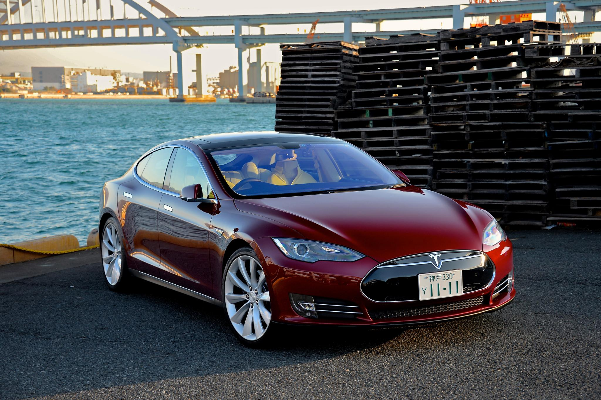 Tesla Model S in Japan